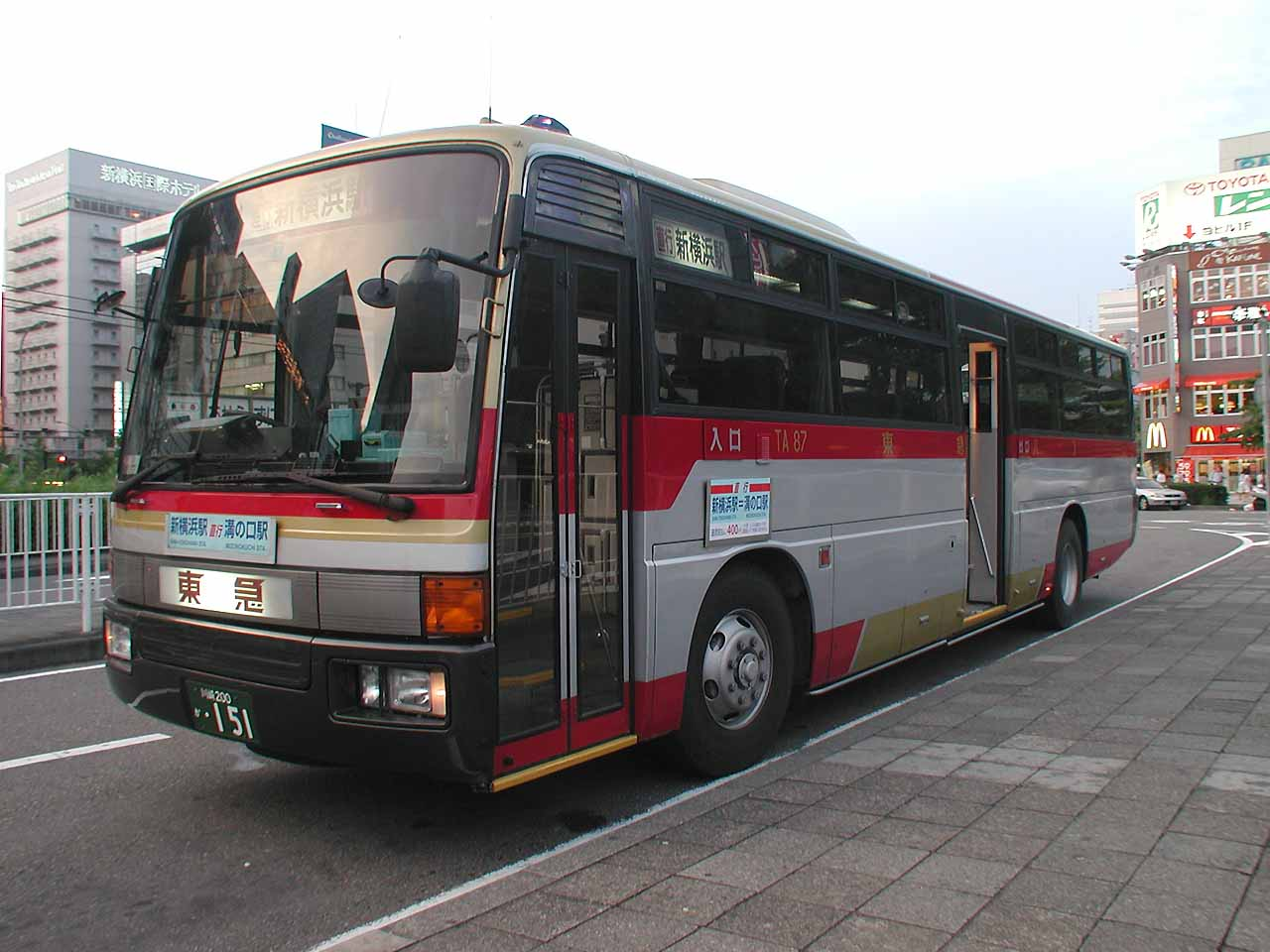 Fleet of Tokyu Bus, called "One-Roma" type (old model). Model: Mitsubishi Fuso Aero Star U-MP618P Body: Shin-Kureha License plate: KNK200 KA-151 ex. TKS22 KA4580 after: KNY200 KA1229 Place: Shin-Yokohama station: Kohoku ward, Yokohama, Kanagawa Japan 東急バスの路線・貸切・深夜急行兼用車、俗称「ワンロマ」。平成初期に導入されたグループの一つ。 型式：三菱ふそうエアロスターK U-MP618P改 車体：新呉羽車体工業 登録番号：川崎200か・151（元・目黒：品川22か4580、その後青葉台へ転出して横浜200か1229） 撮影地：神奈川県横浜市港北区・新横浜駅